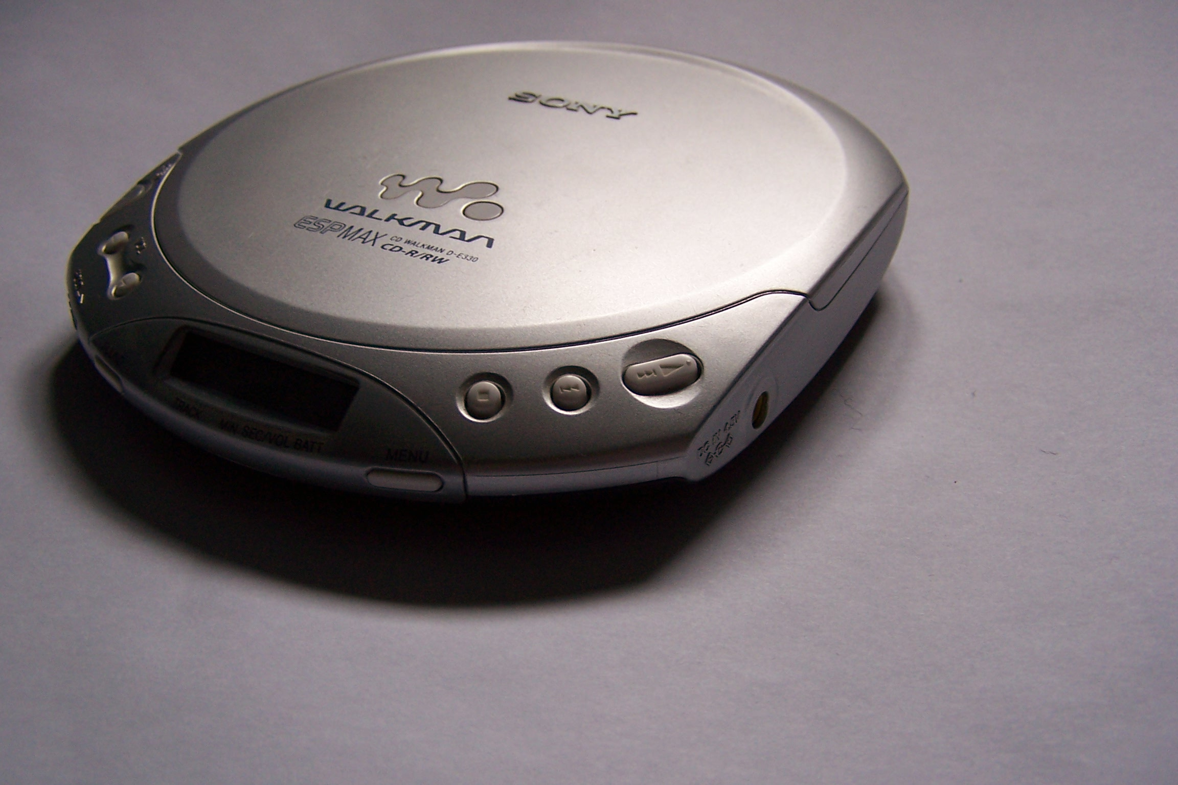 Silver Sony CD Walkman D-E330, taken from an angle.